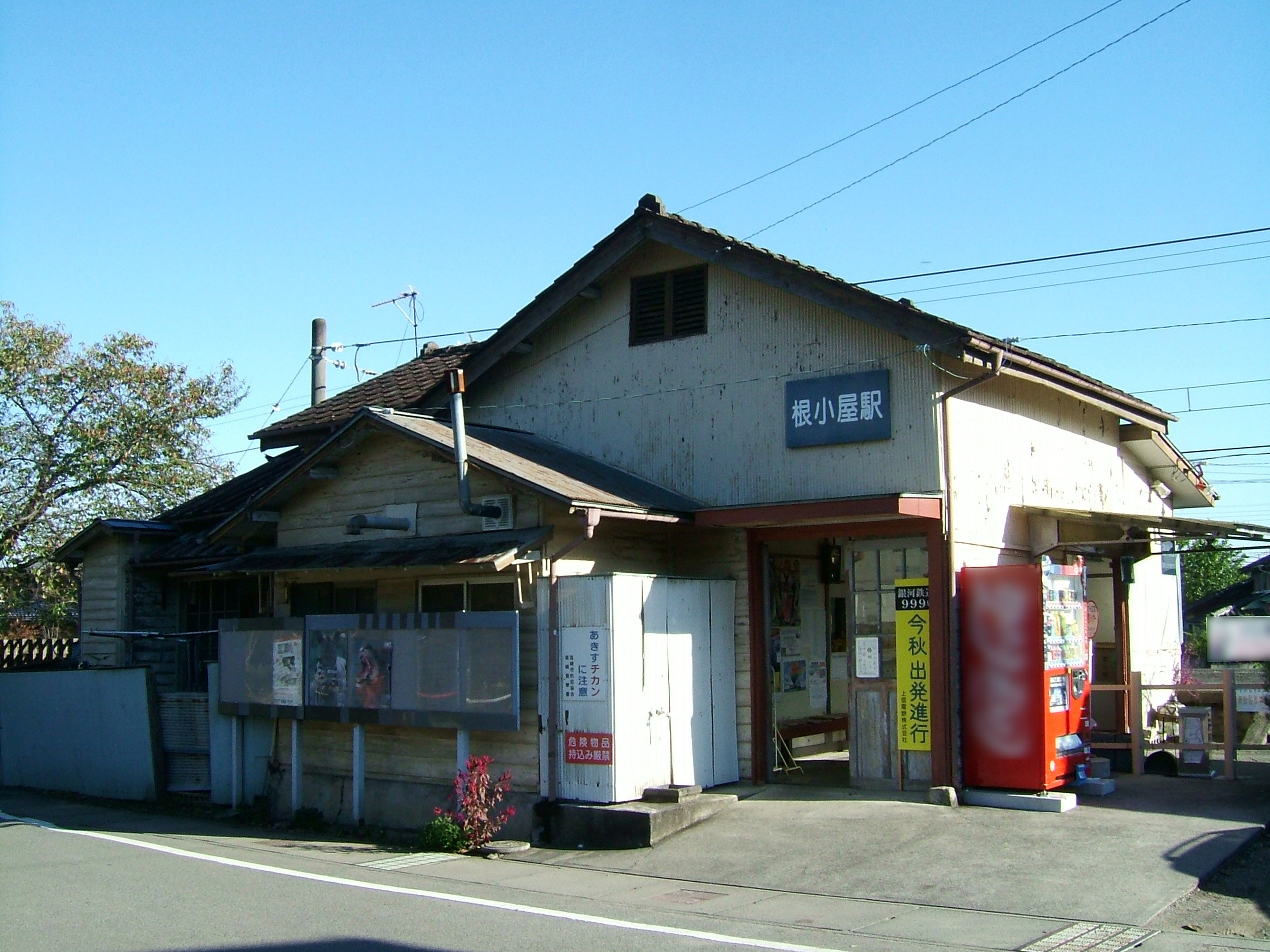 Negoya Station on the Jōshin Dentetsu Jōshin Line in Takasaki city, Gumma prefecture, Japan